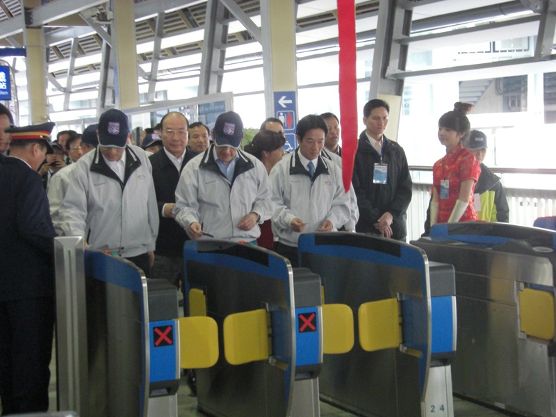 Turnstiles at Shalun Station on the Shalun Line,Tainan,Taiwan.